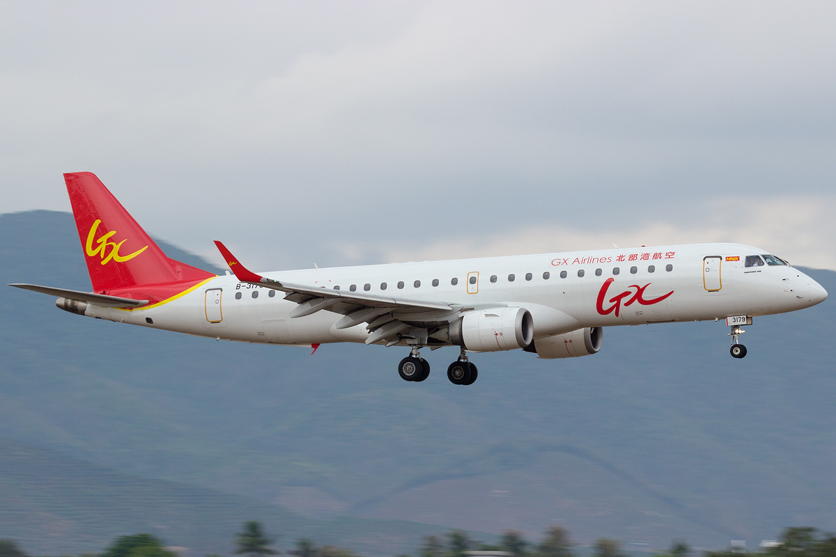 GX Airlines Embraer 190LR on finals at Sanya Phoenix International Airport